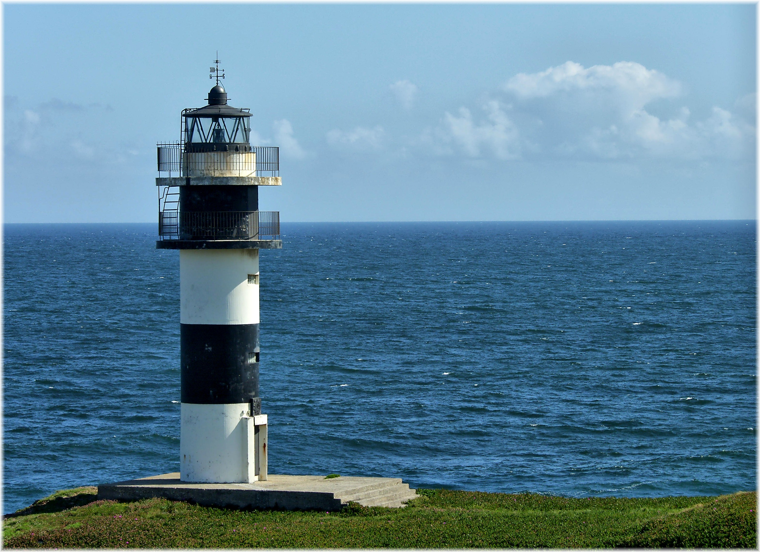 La Isla Pancha (Illa Pancha) lighthouse